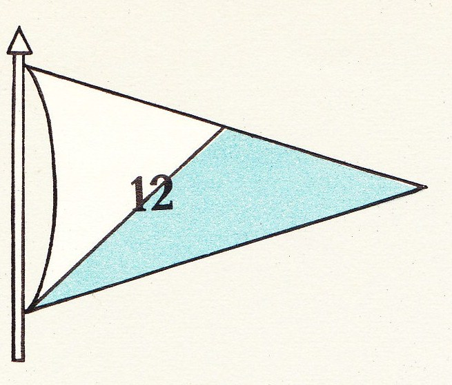 Patch of SPA 12